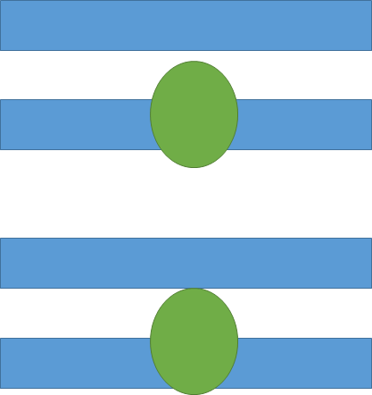 A cut exposure that is offset can distort the line ends, leading to arcing (top), and/or infringe on an adjacent line (bottom). [1][2]